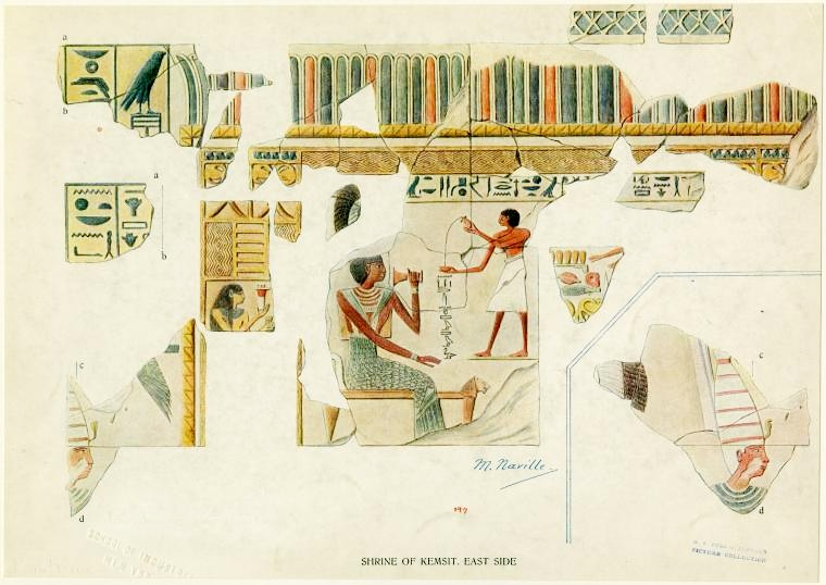 Shrine Of Kemsit at the Mortuary Temple of Mentuhotep II in Deir el-Bahari, drawing by Margaret N., wife of Edouard Naville